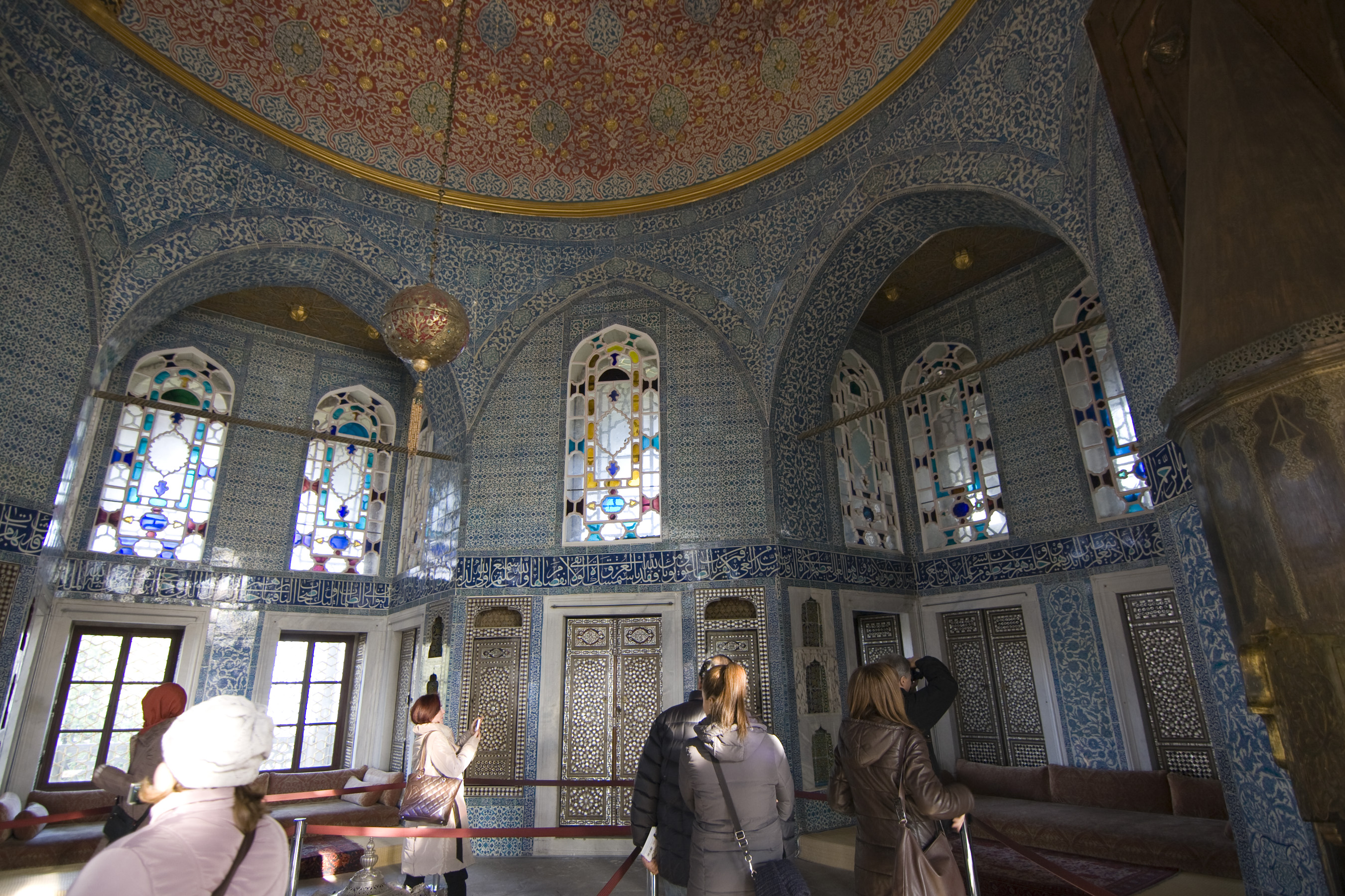 Topkapı Palace, Istanbul, Turkey